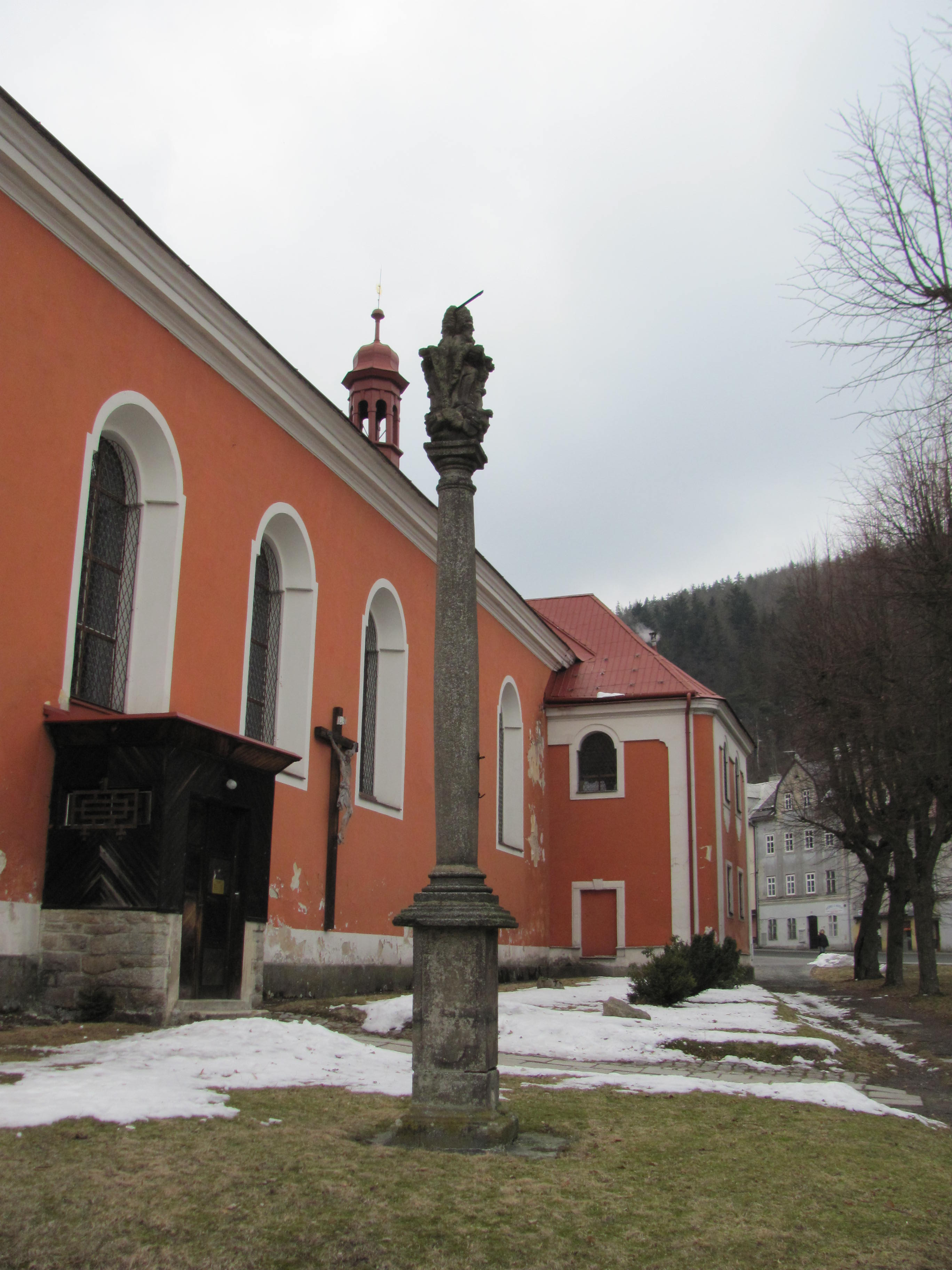 Column with the statue of Holy Trinity in Nejdek, (Karlovy Vary District), cultural monument